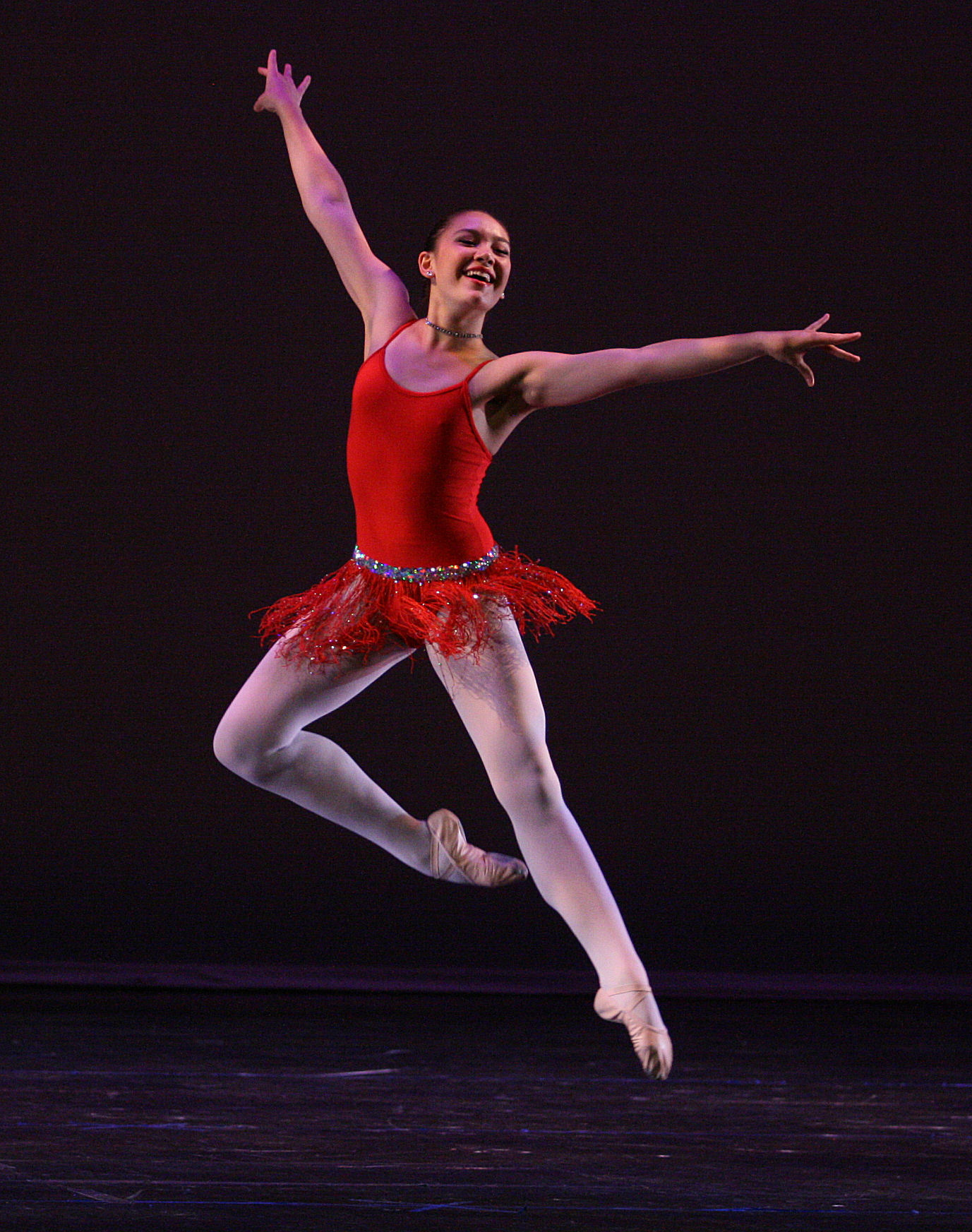 A contemporary ballet leap performed by Daria L.